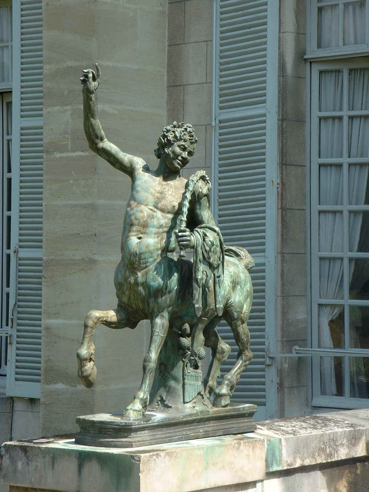 Modern bronze copy of the type of the Young Centaur, Malmaison.